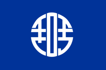 Flag of Chibu Shimane